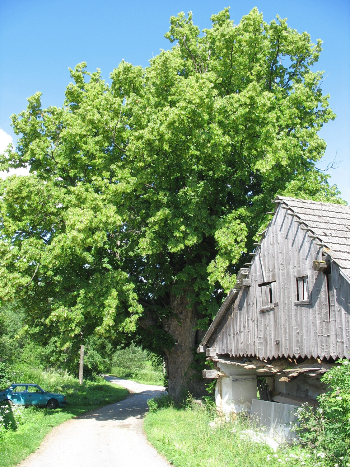 Linden tree in Řepešín, Czech Republic.